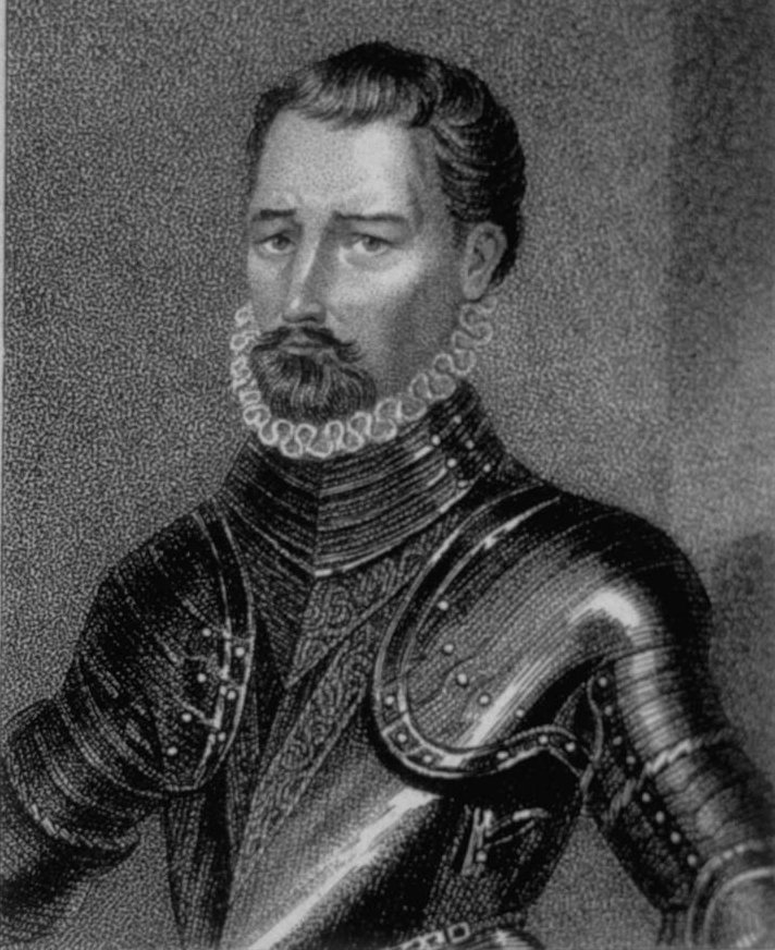 George Gascoigne, English poet